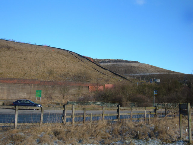 Deerplay Landfill Site , near Burnley. Here is the entrance to the former Deerplay Quarry now being reclaimed by landfill. View looking west from across the A671 Bacup to Burnley road.